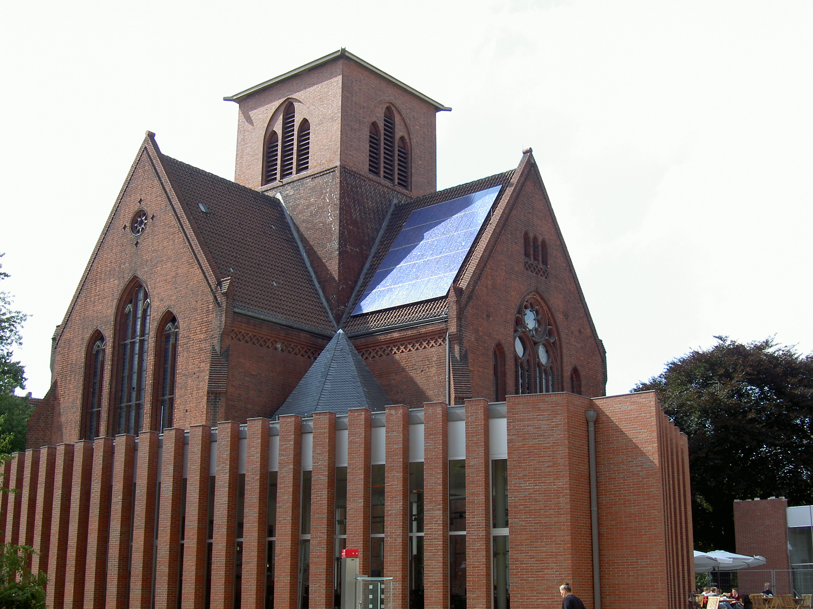 Genezareth-Church in Berlin-Neukölln. Chopped tower due to proximity of Tempelhof airport